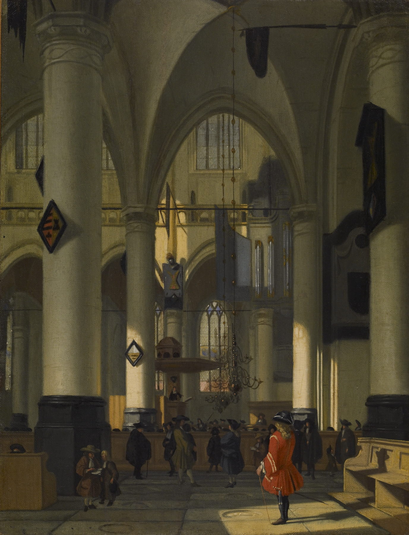 After 1581, when the northern Netherlandish provinces declared their independence from Catholic Spain, most Dutch Catholic churches were whitewashed for the use of Protestants, especially the followers of John Calvin. In covering the frescoes of biblical subjects that Catholic worshipers had treasured for their beauty and as aids to devotion, these Protestants strictly interpreted the biblical injunction against images of the divine that could lead to idolatry. They focused on God's word, and preaching, depicted here, was central to their worship. The white, light-filled spaces have an abstract beauty that Van Streek has enhanced by a brilliant splotch of crimson in the coat of the fashionable man in the foreground and by his shadow sliding over the pew. This imaginary interior is based on the Old Church (Oude Kerk) in Amsterdam.